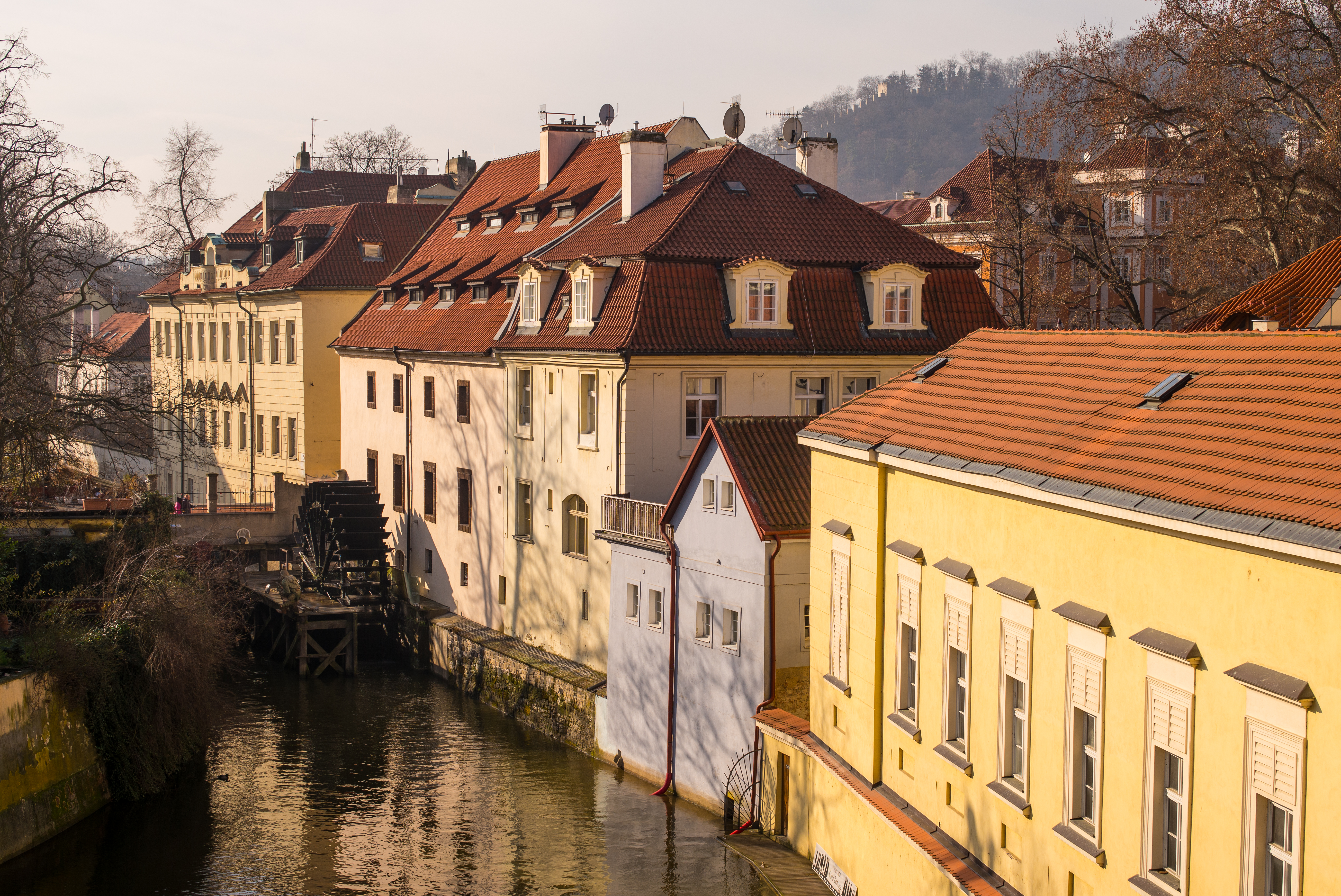 Prague, Kampa, Velkopřevorský watermill